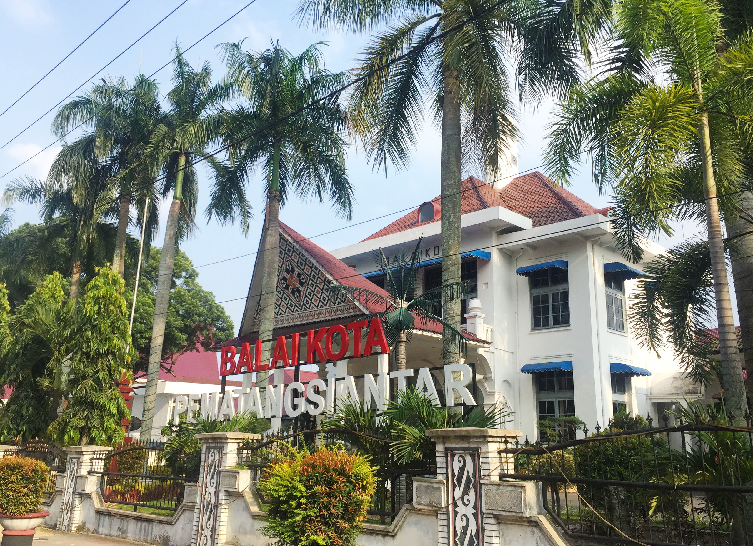 Office of Pematangsiantar